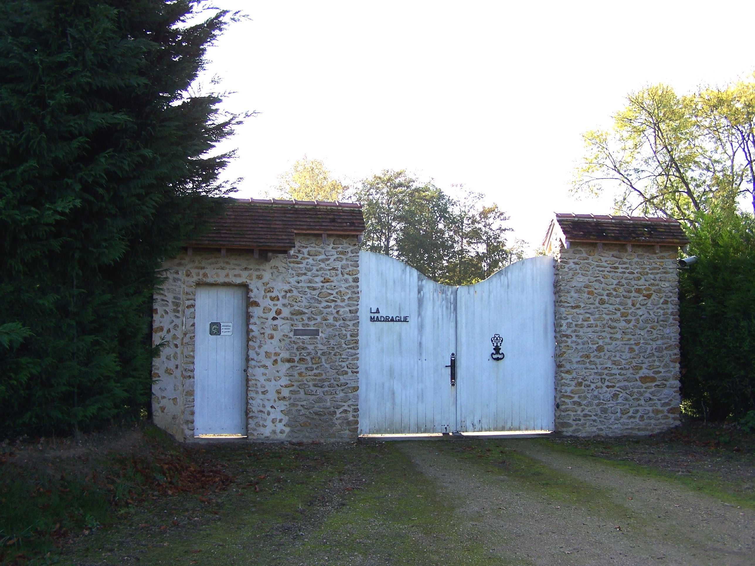 Entrance of the property of Brigitte Bardot in Mareil-le-Guyon (Yvelines, France)